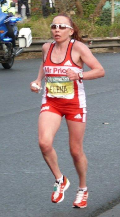 Elena Nurgalieva at the 65 km mark, descending Fields Hill near Pinetown on her way to a seventh win in the Comrades marathon, in a time of 6:07:12